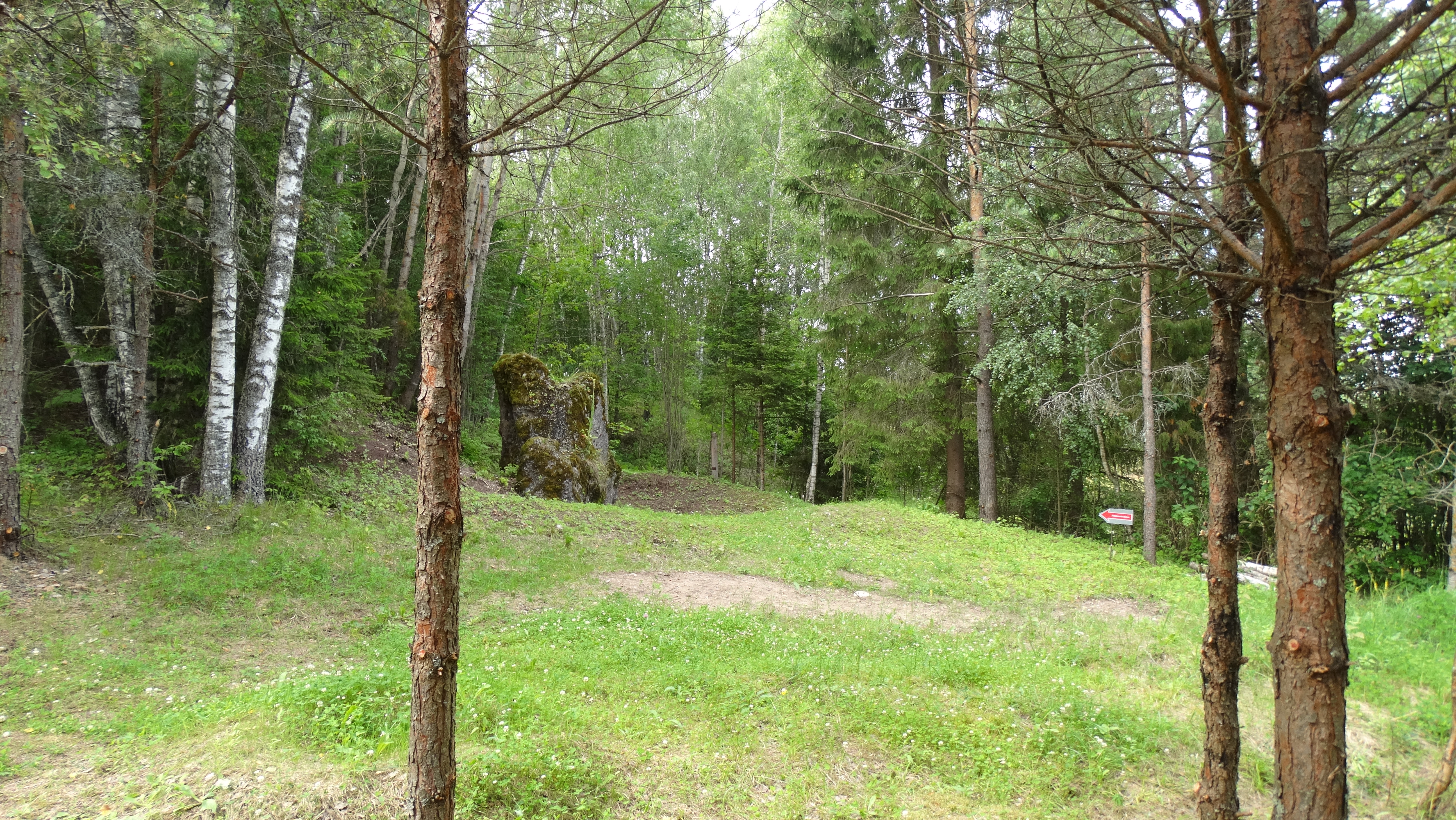 Conglomerate in Antakmenė, Ignalina district, Lithuania